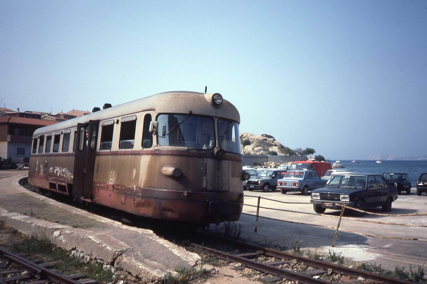 The Northern terminus of the SFS system at Palau Marina, with a railcar. At the time (1984) there where only 3 trains a day. Now only special tourist trains. This was the endpoint close to the boatterminal. This place is later build over and the tourist train no longer terminates here.